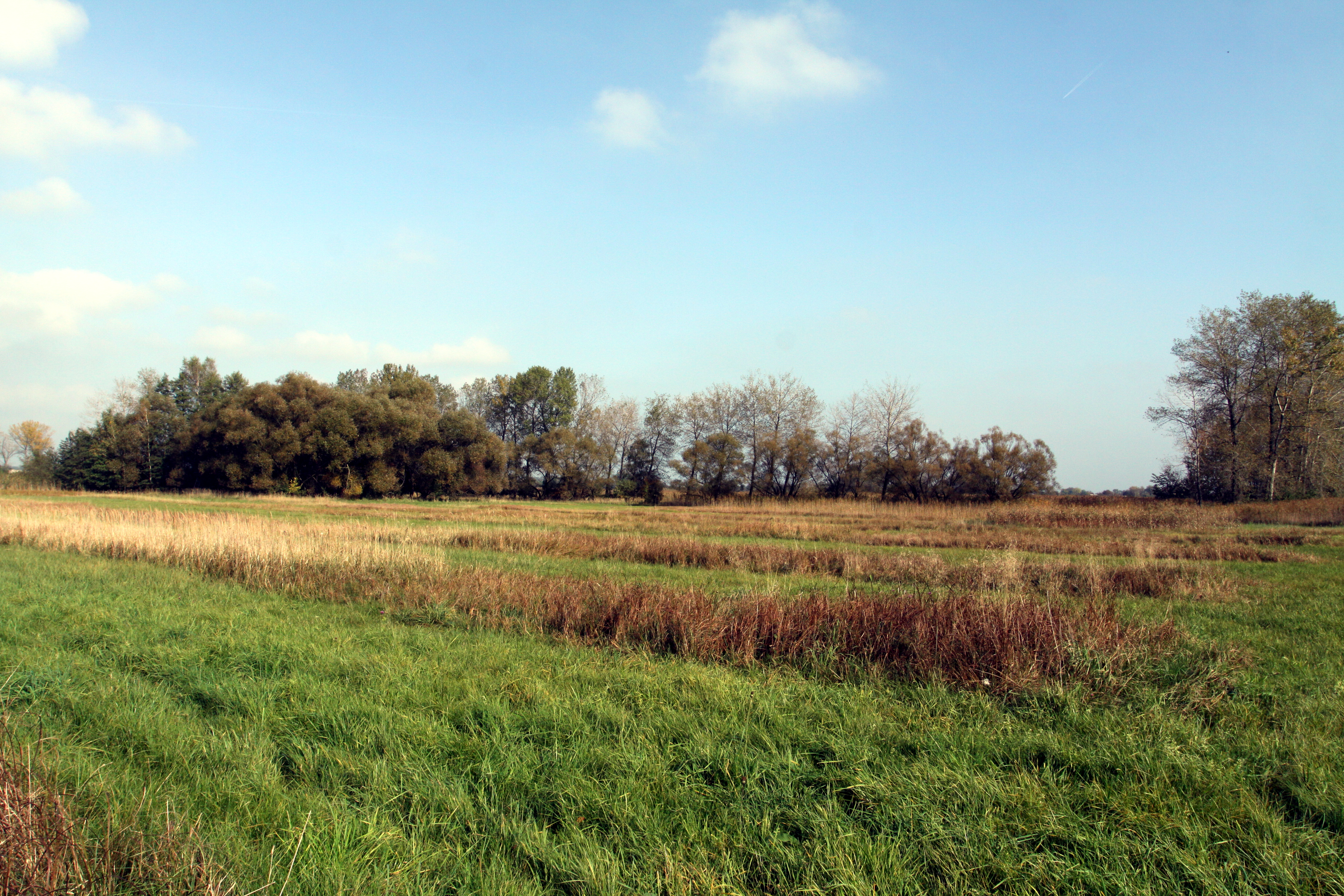 Nature reserve Louky u rybníka Proudnice near Žiželice village in Kolín District, Czech Republic - Google Maps - Google Earth